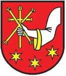 Štrba's erb